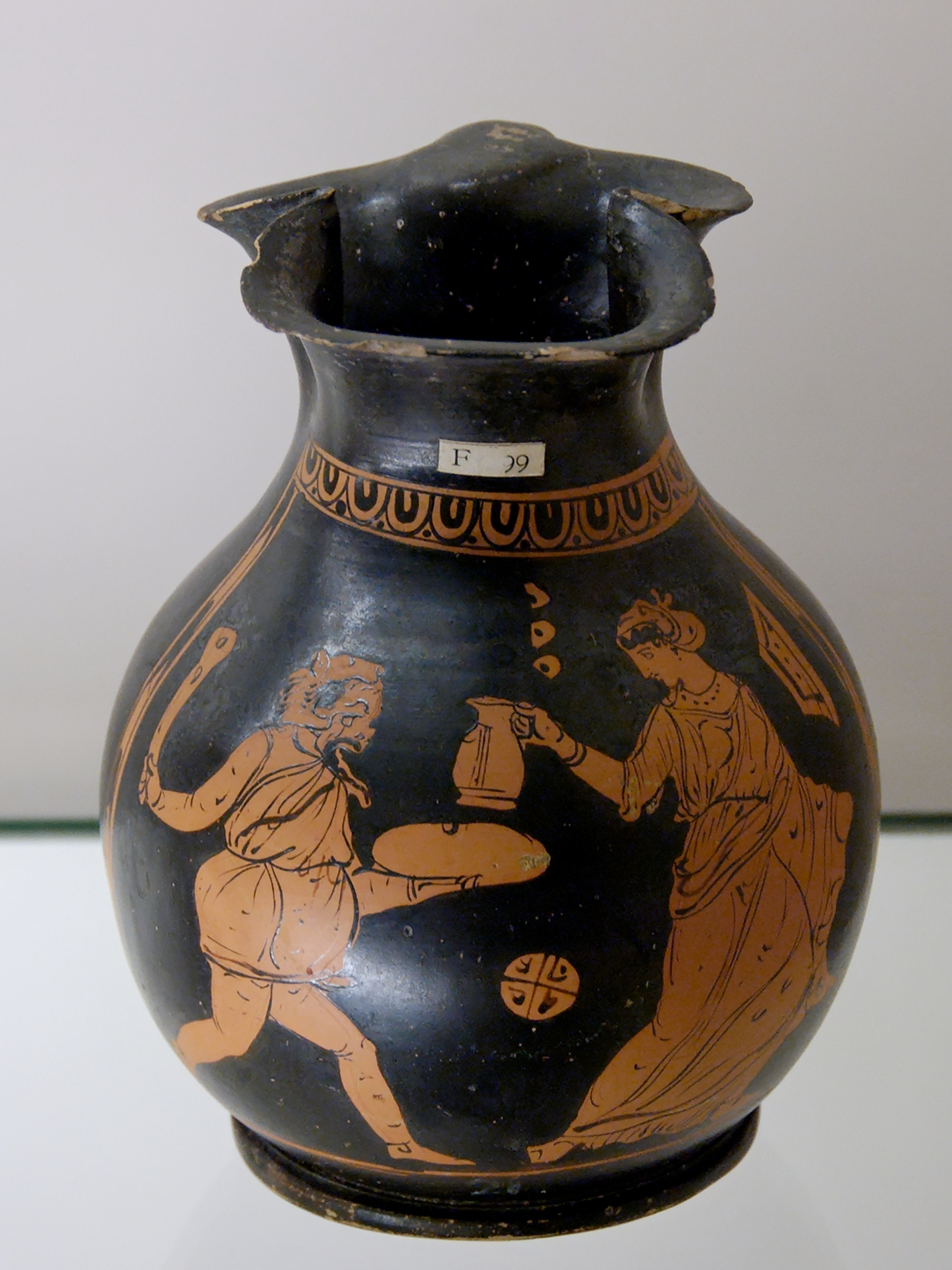 Herakles chasing a woman, scene of a phlyax play. Apulian red-figured oinochoe, ca. 370–360 BC. From the Basilicata.